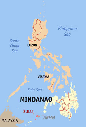 Map of the Philippines showing the location of Sulu